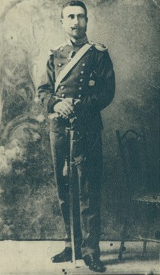 Georgi Bazhdarov